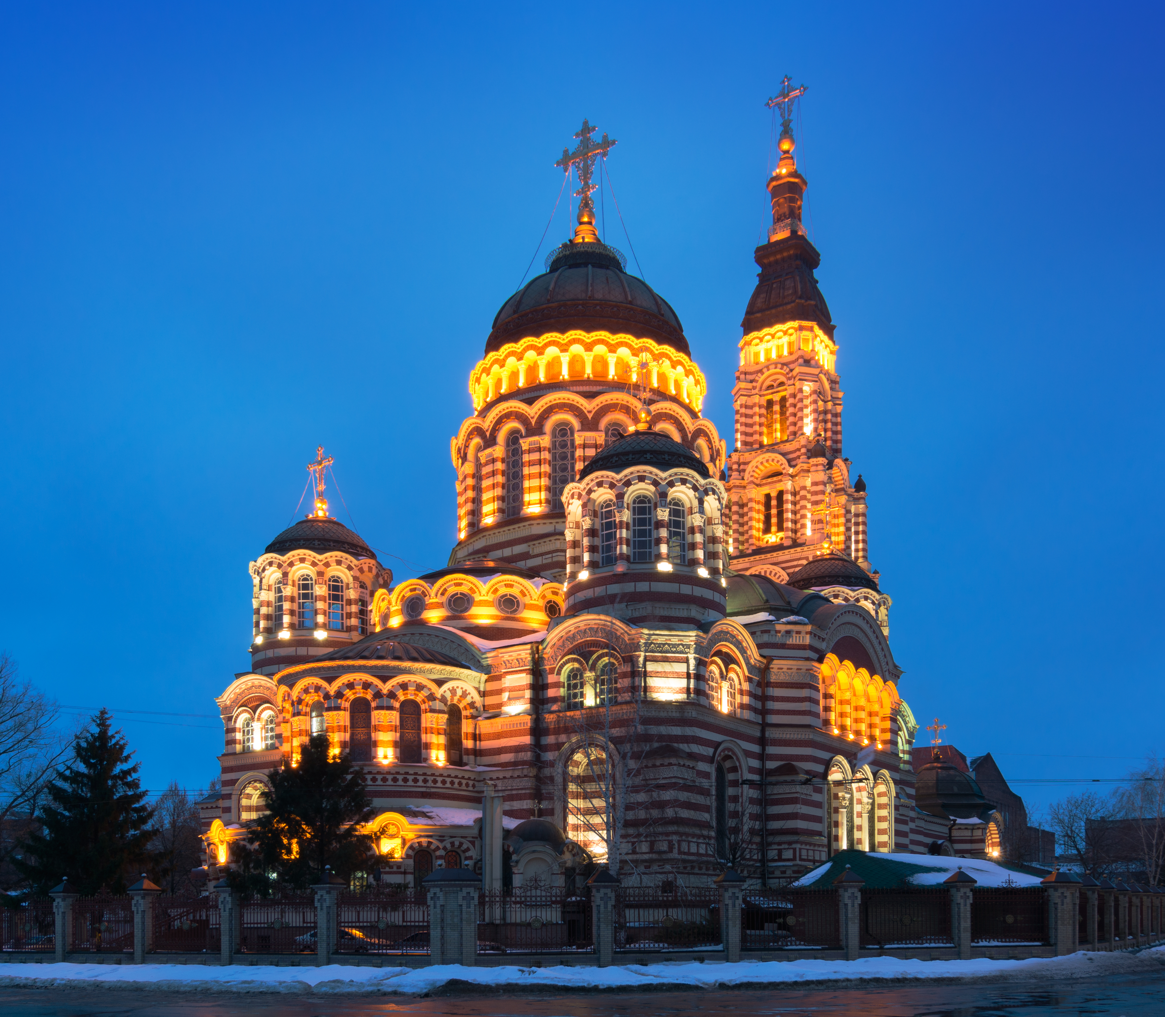 Annunciation Cathedral in Kharkiv, Ukraine.